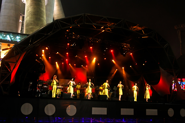 Live Earth China @ Shanghai Oriental Pearl TV Tower * 12 Girls Band